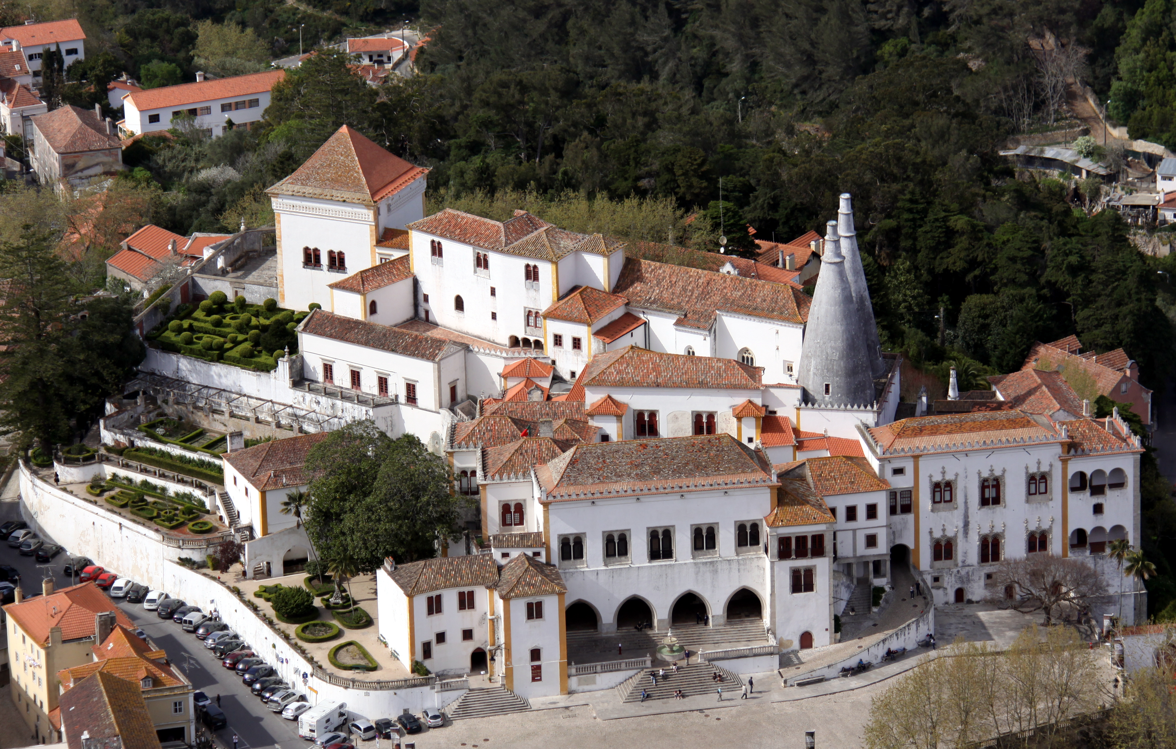 Palácio Nacional de Sintra (Palácio da Vila)